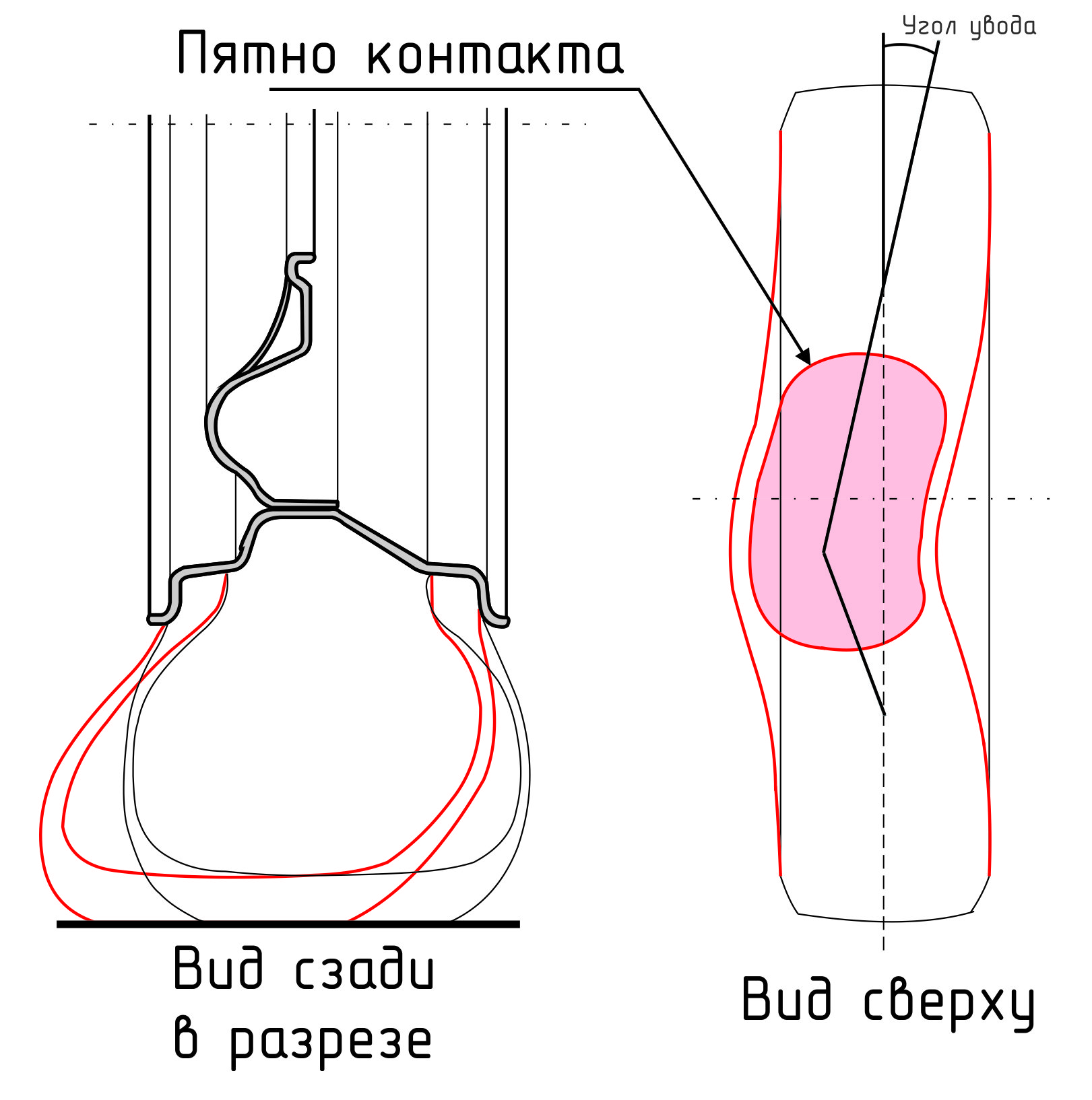 Diagram of tire slip in Russian. Tire deformation and contact patch are shown.